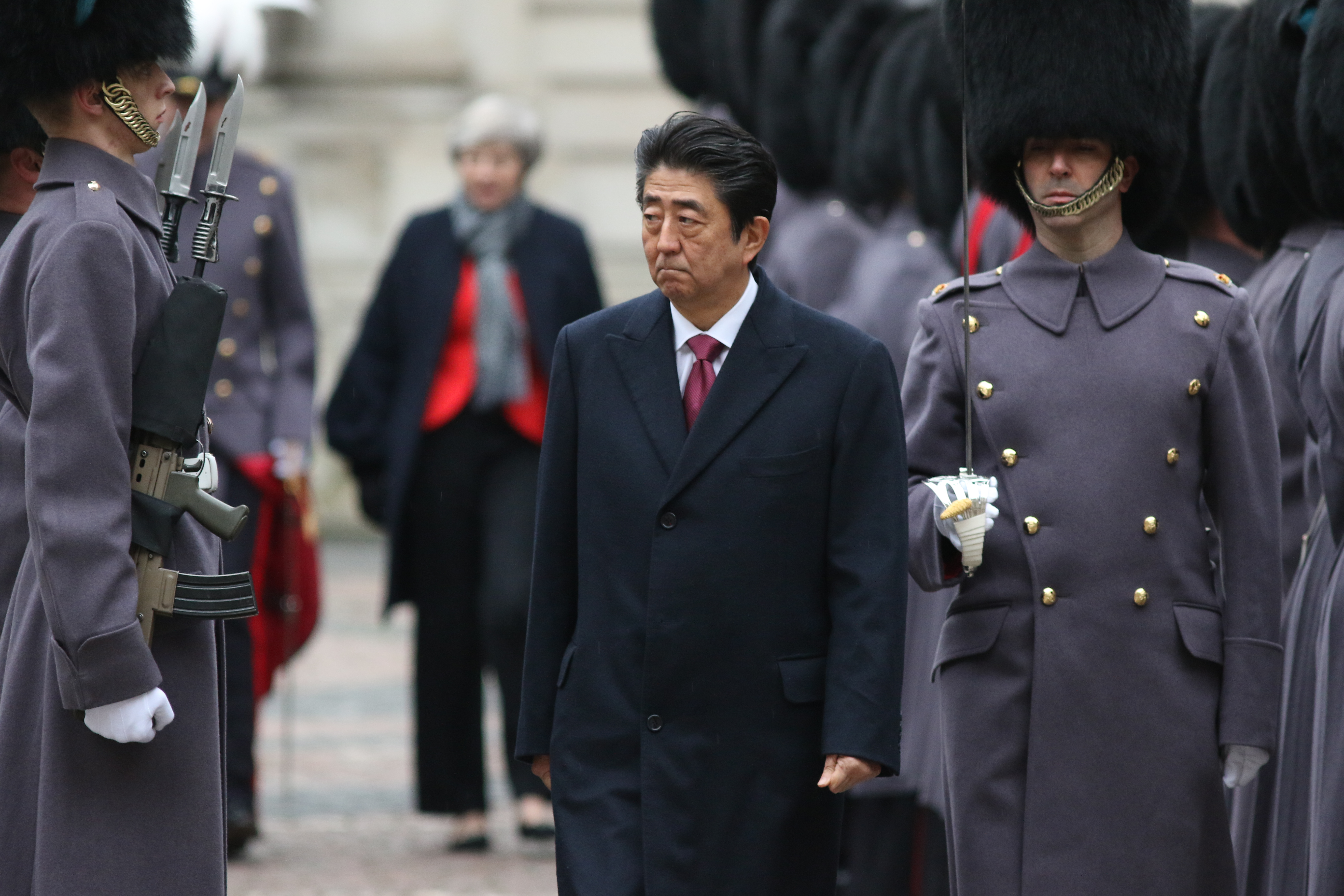 Prime Minister Shinzo Abe of Japan receives a military Guard of Honour in London.